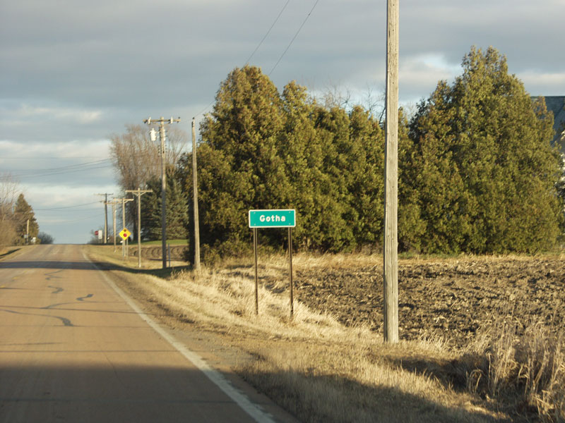 Gotha, Minnesota. From .